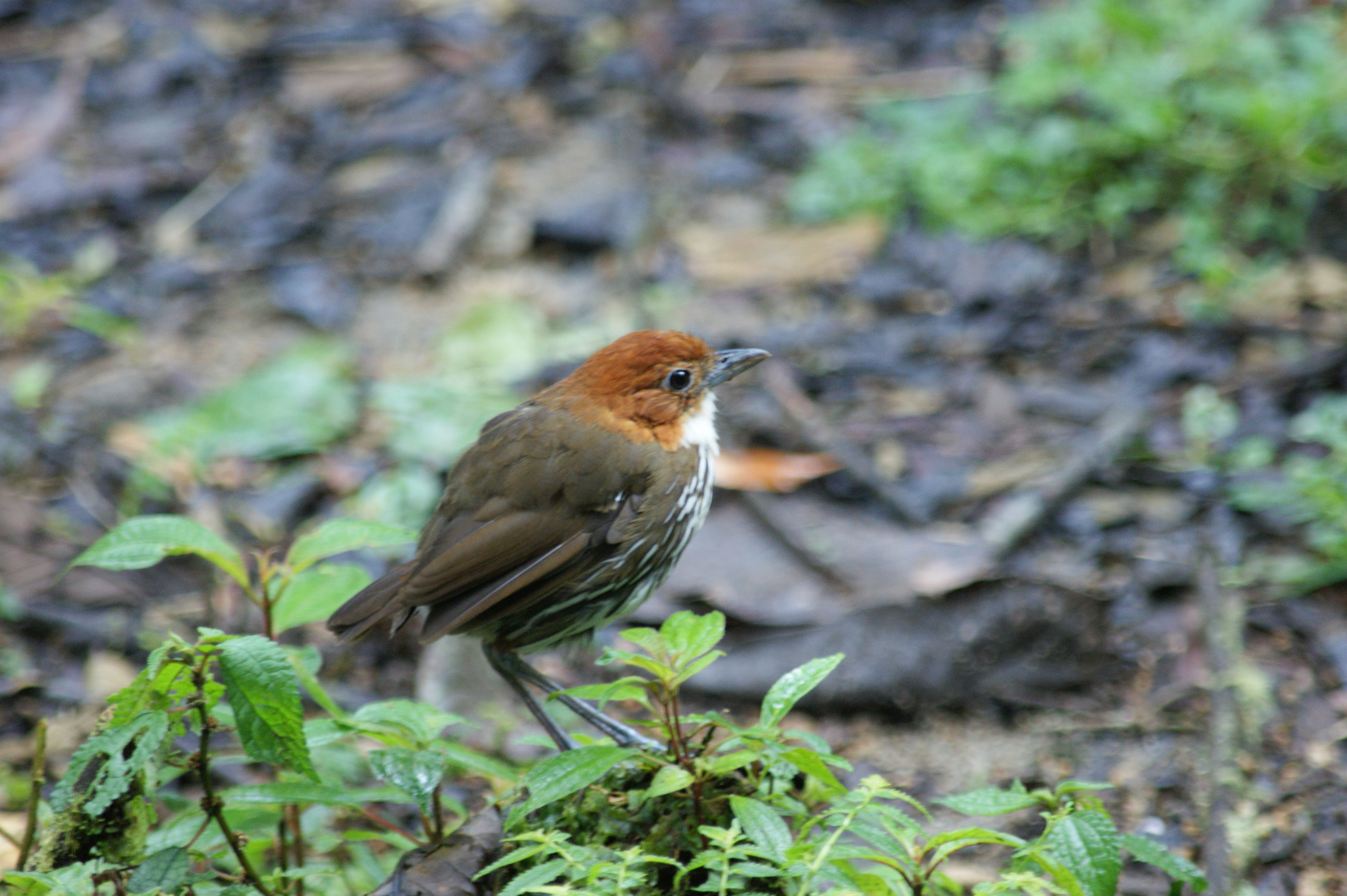 Chestnut-crowned Antpitta in Colombia.